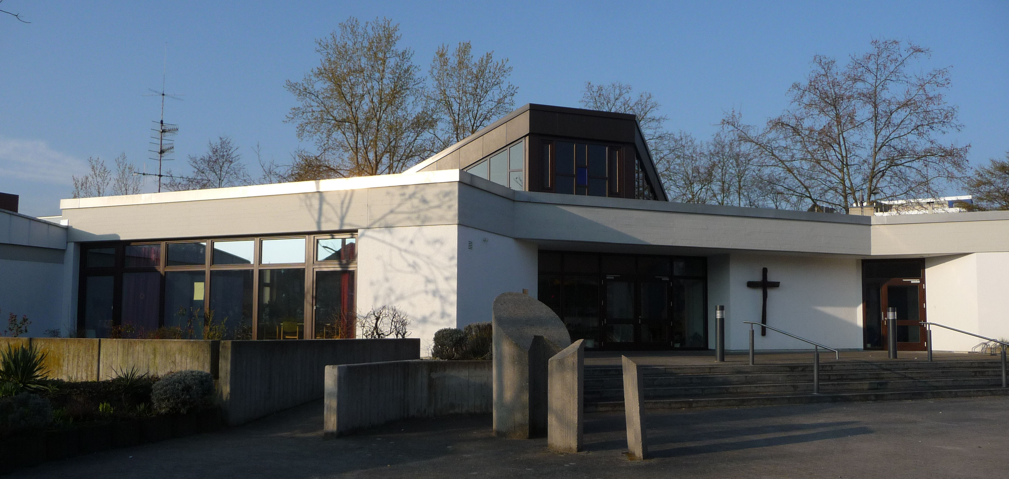 church in Ludwigshafen, Germany